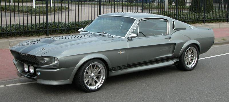 This is a picture of a vehicle (name of it is on the file name).